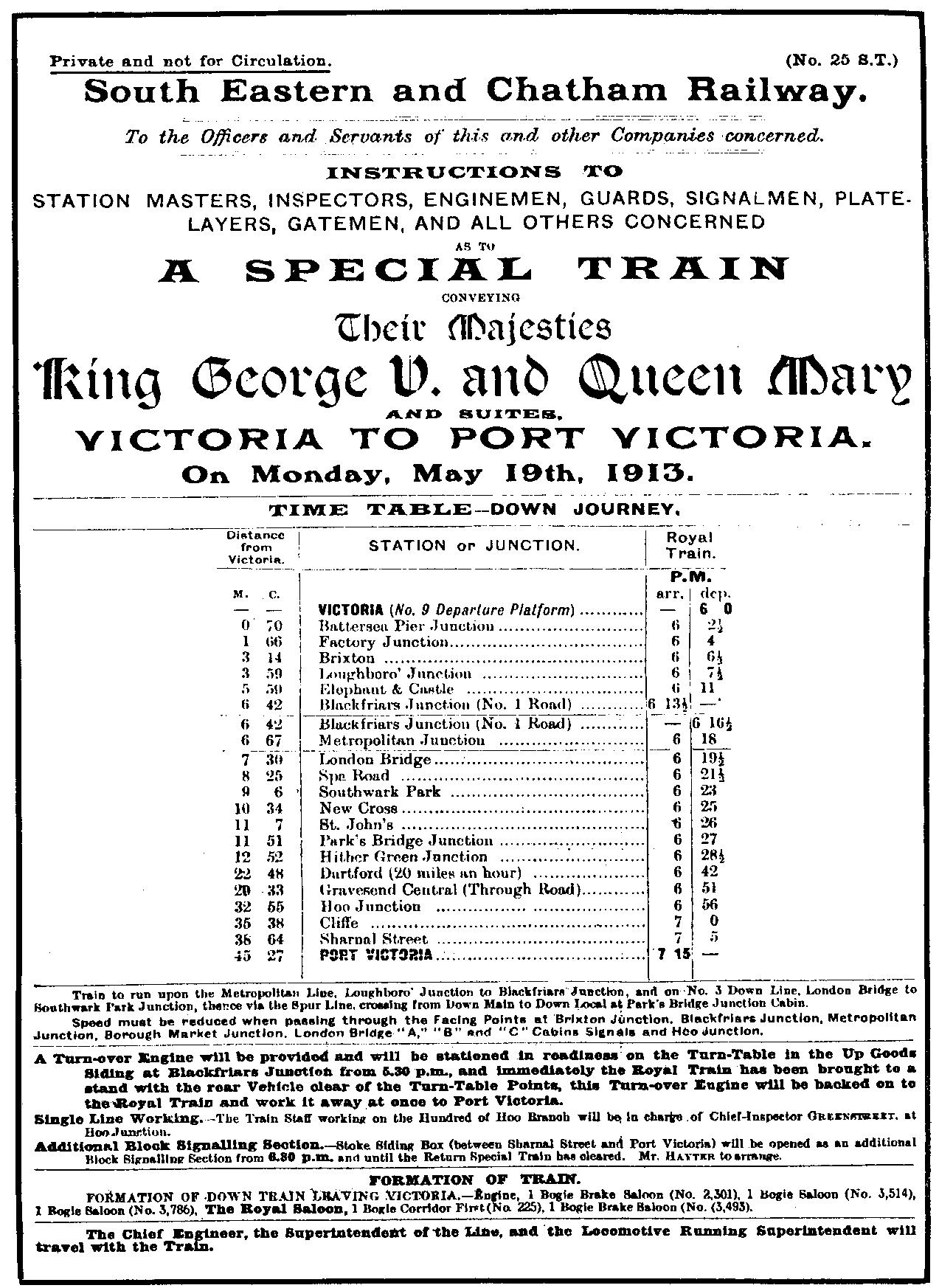 Notice announcing that the Royal Train will pass through the Hundred of Hoo Railway, Kent